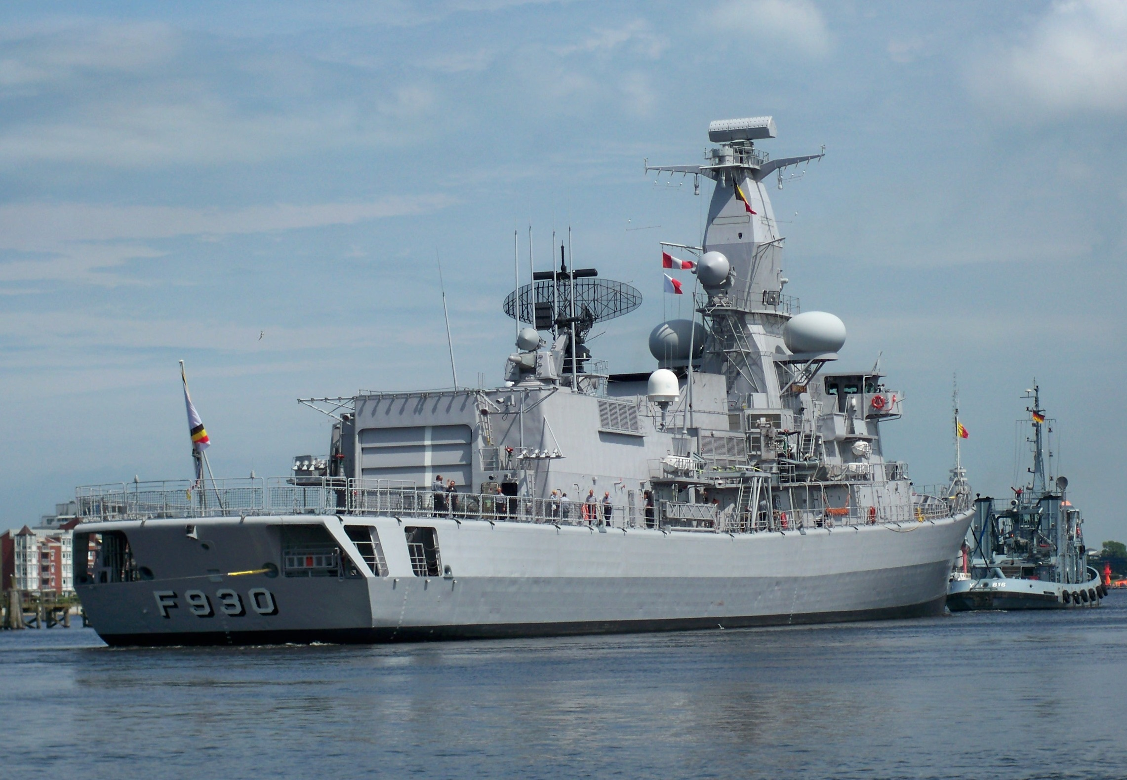 Belgian frigate Leopold I at the deperming range in Wilhelmshaven